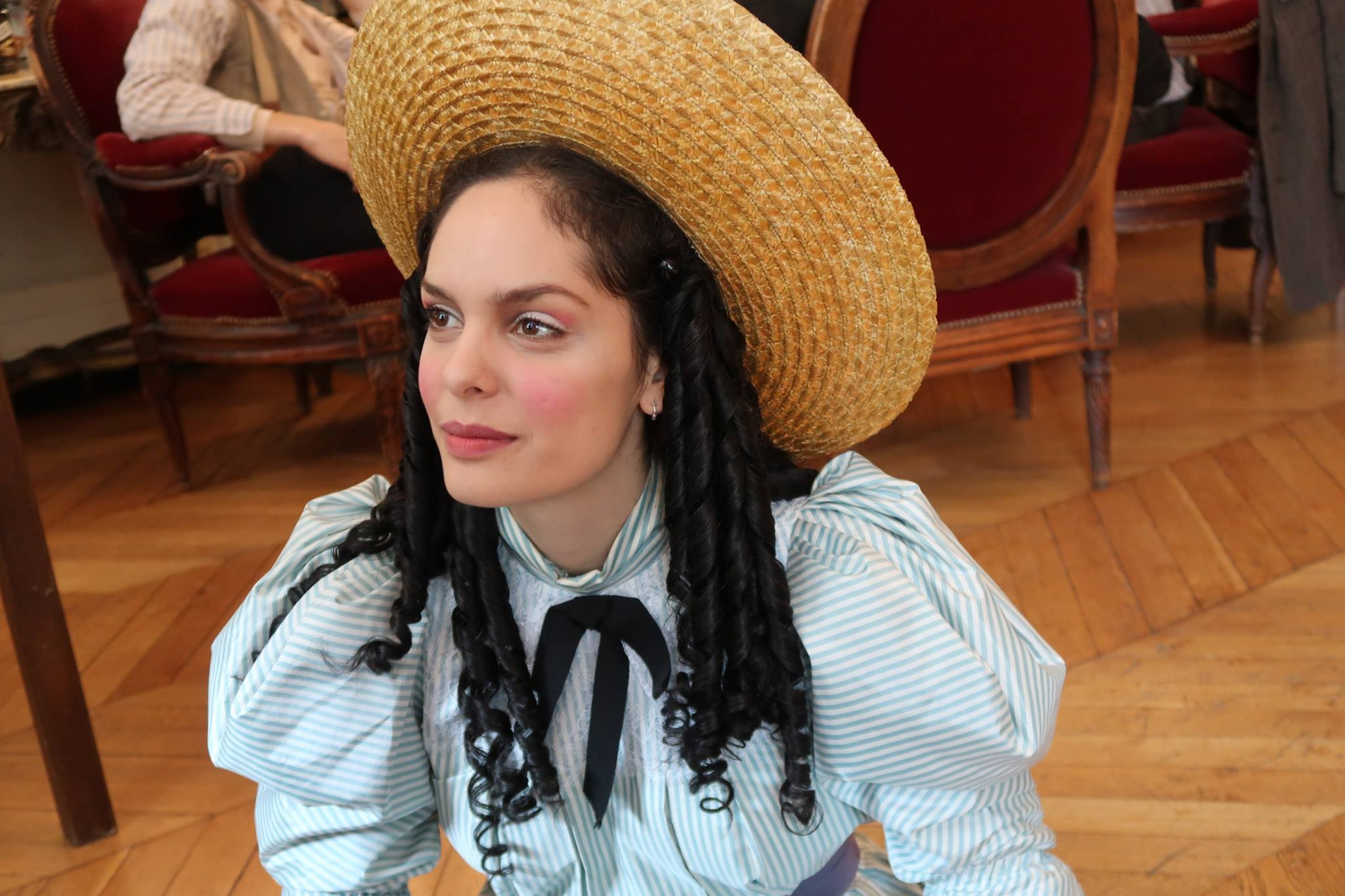 Actress Amaranta Kun in costume, sitting on the floor and chatting with other actors backstage during the play L'Hôtel du Libre Échange by G. Feydeau, directed by Isabelle Nanty at the Comédie Française.